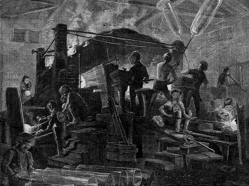 Pittsburgh Sketches -- Among the Glass-Workers, an engraving by Harry Fenn printed March 18, 1871 in Every Saturday, published by J. Osgood & Company, Boston, Massachusetts.